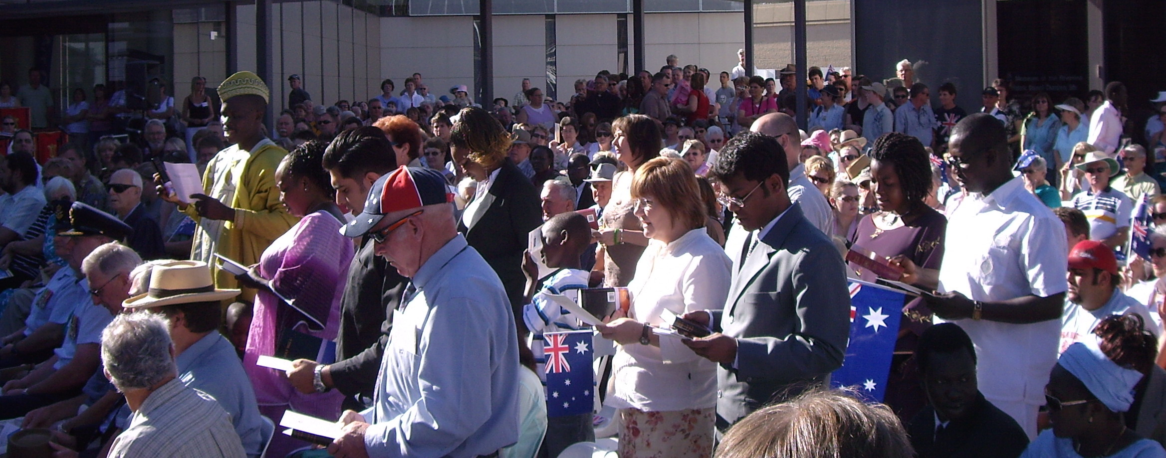 Photograph taken by VirtualSteve. Full catalogue of all my images uploaded to Wikipedia available here Images